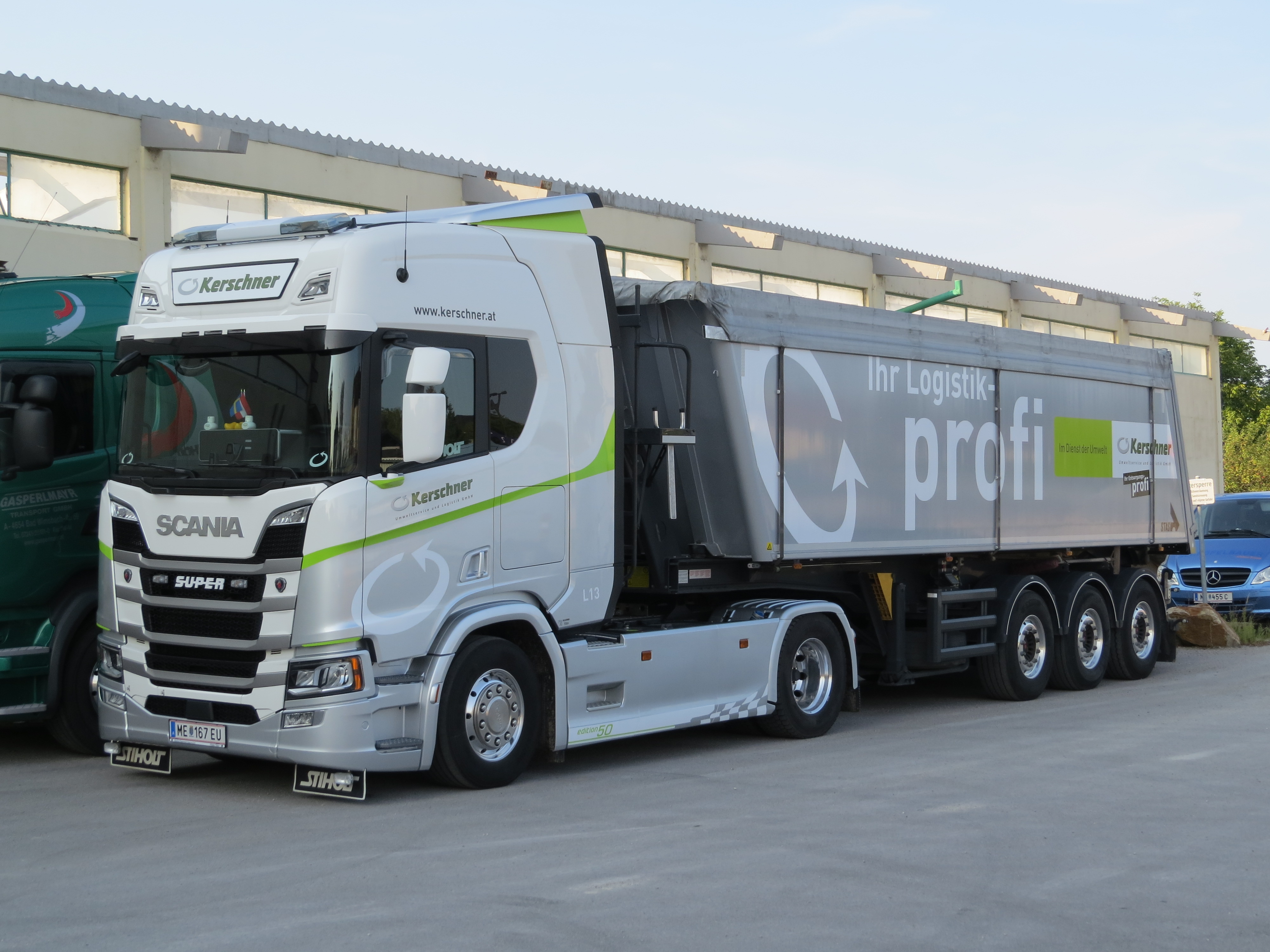 Scania R-series at Park and Ride Bahnhof Wieselburg